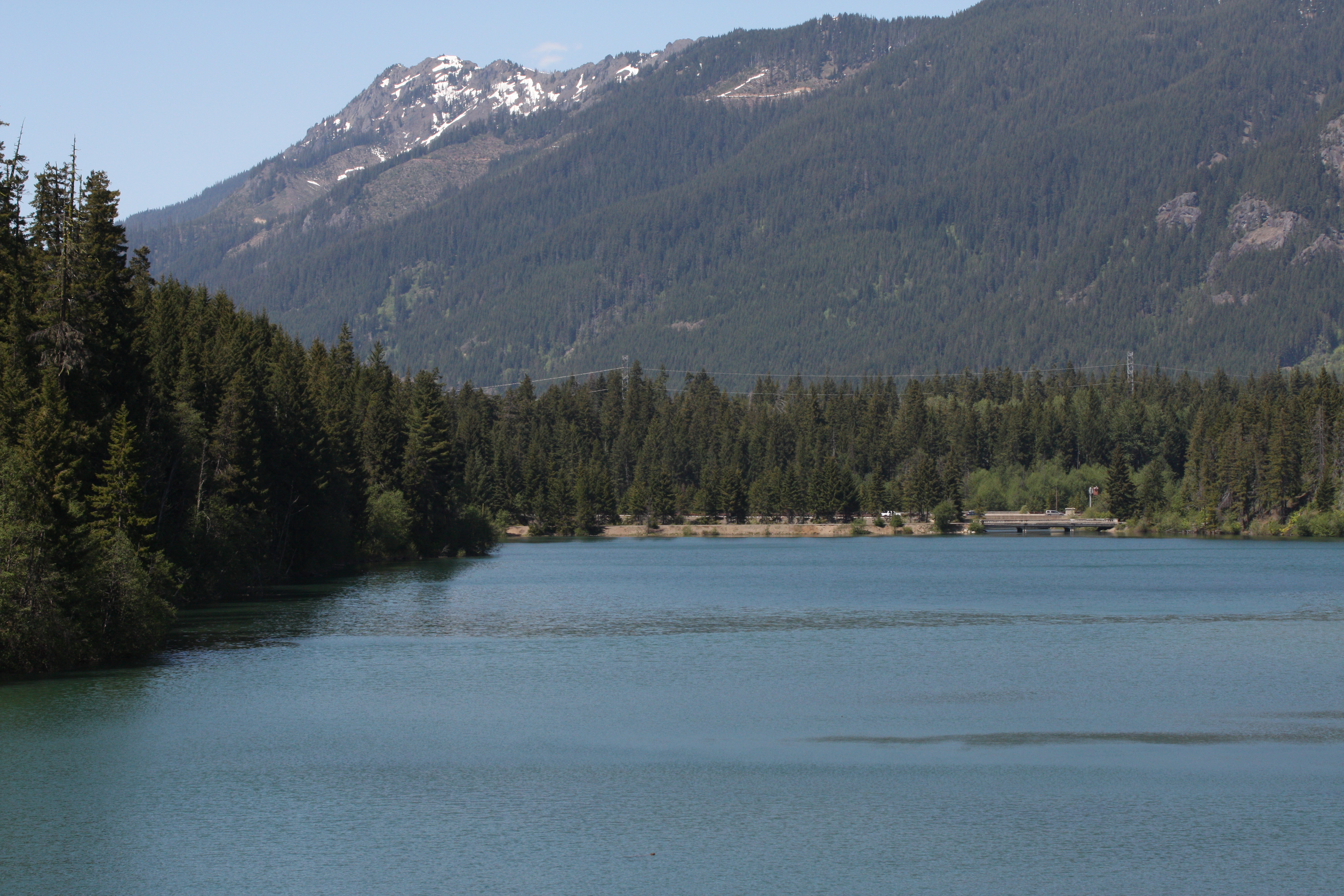 Lake Easton Kachess Ridge, Point 5525 feet (left center skyline)